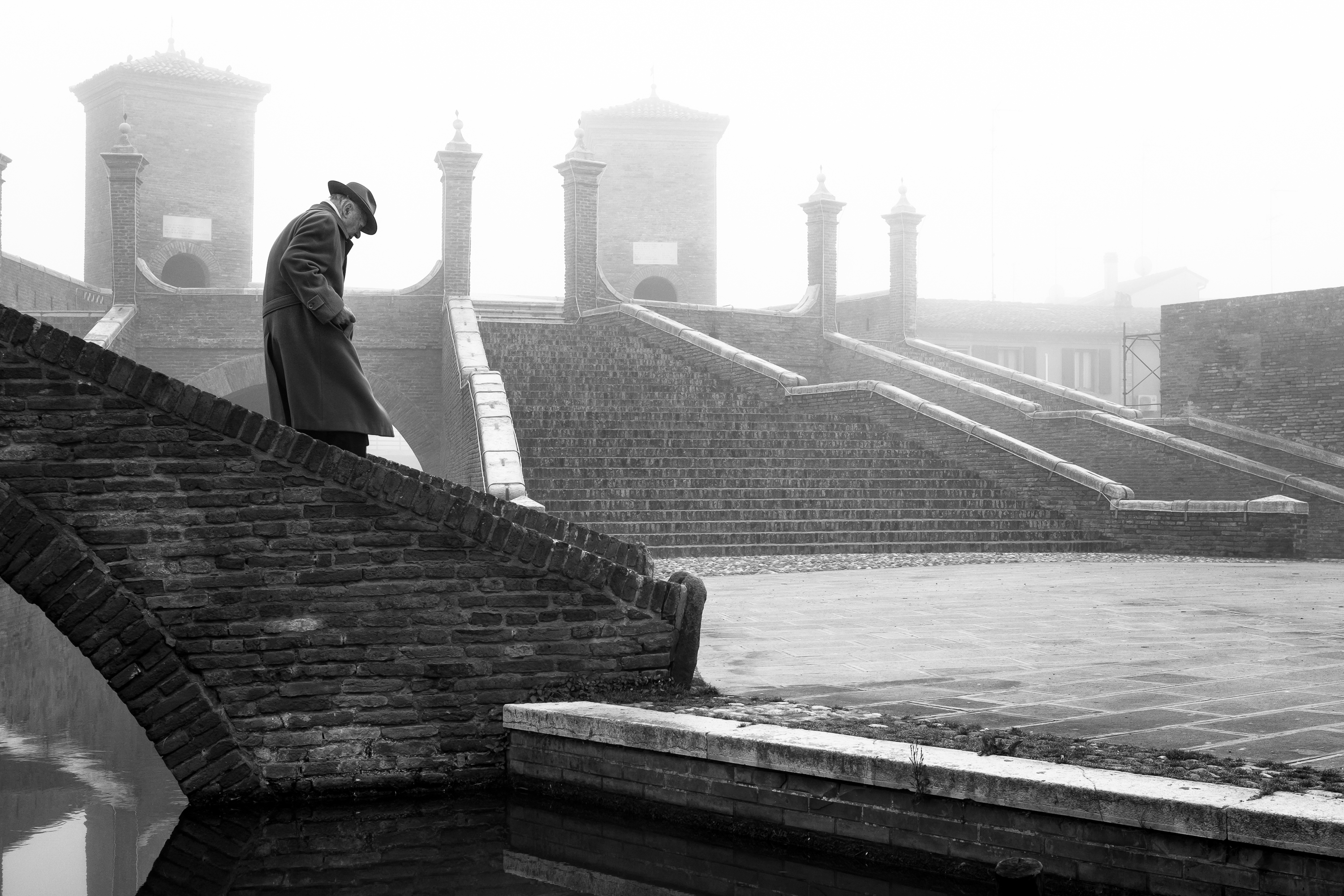 Old town of Comacchio and its bridges